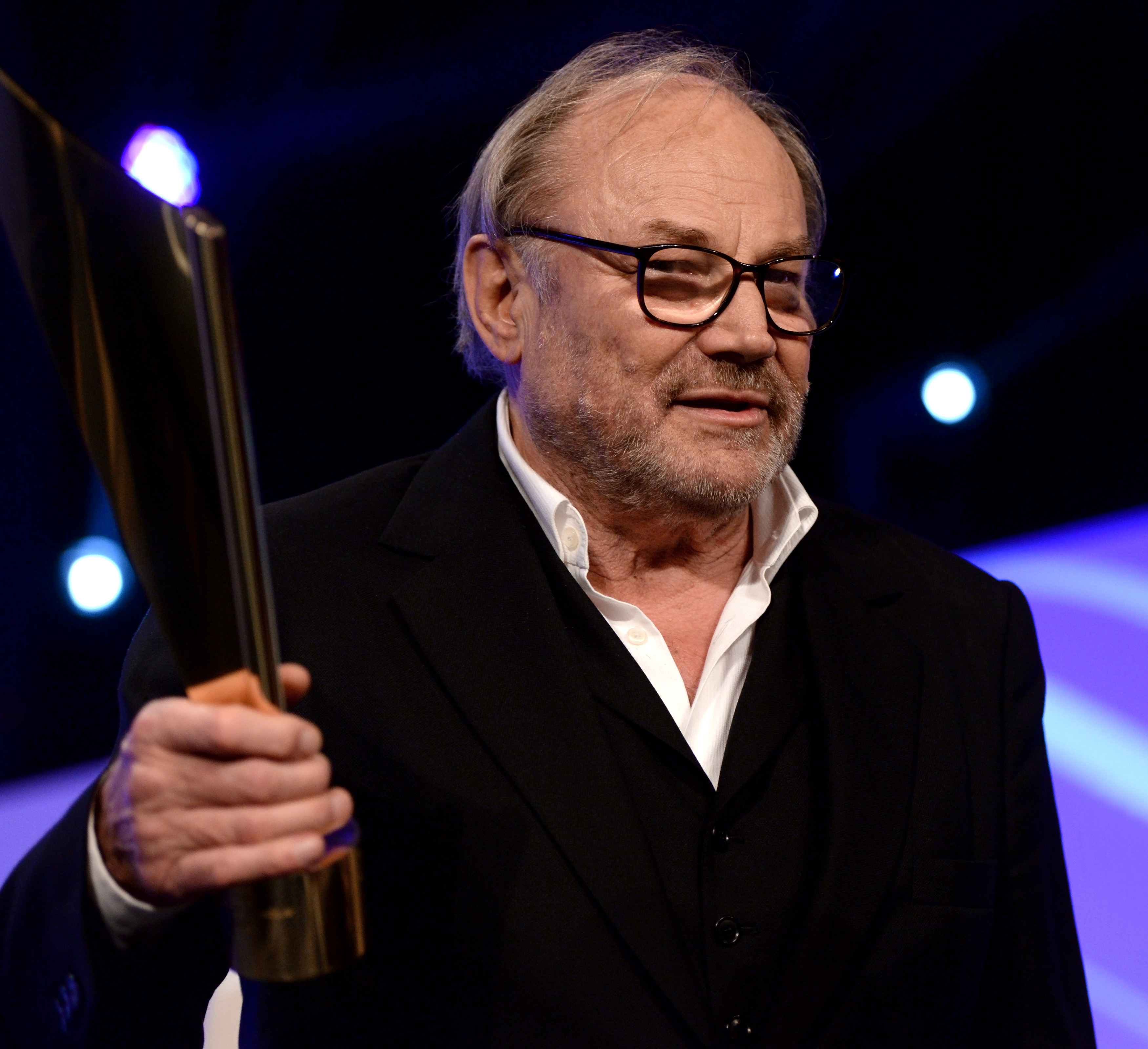 Klaus Maria Brandauer - Nestroy Theatre Awards 2014 at Wiener Stadthalle (Vienna, Austria).